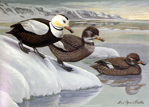 Labrador Duck, Camptorynchus labradorius, chromolithograph after painting. Male (left), juvenile male (center), adult female (right).